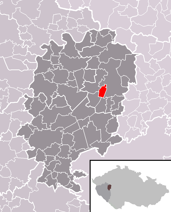 Location of Plískov municipality within Rokycany District and within identical administrative area of Rokycany as a Municipality with Extended Competence.